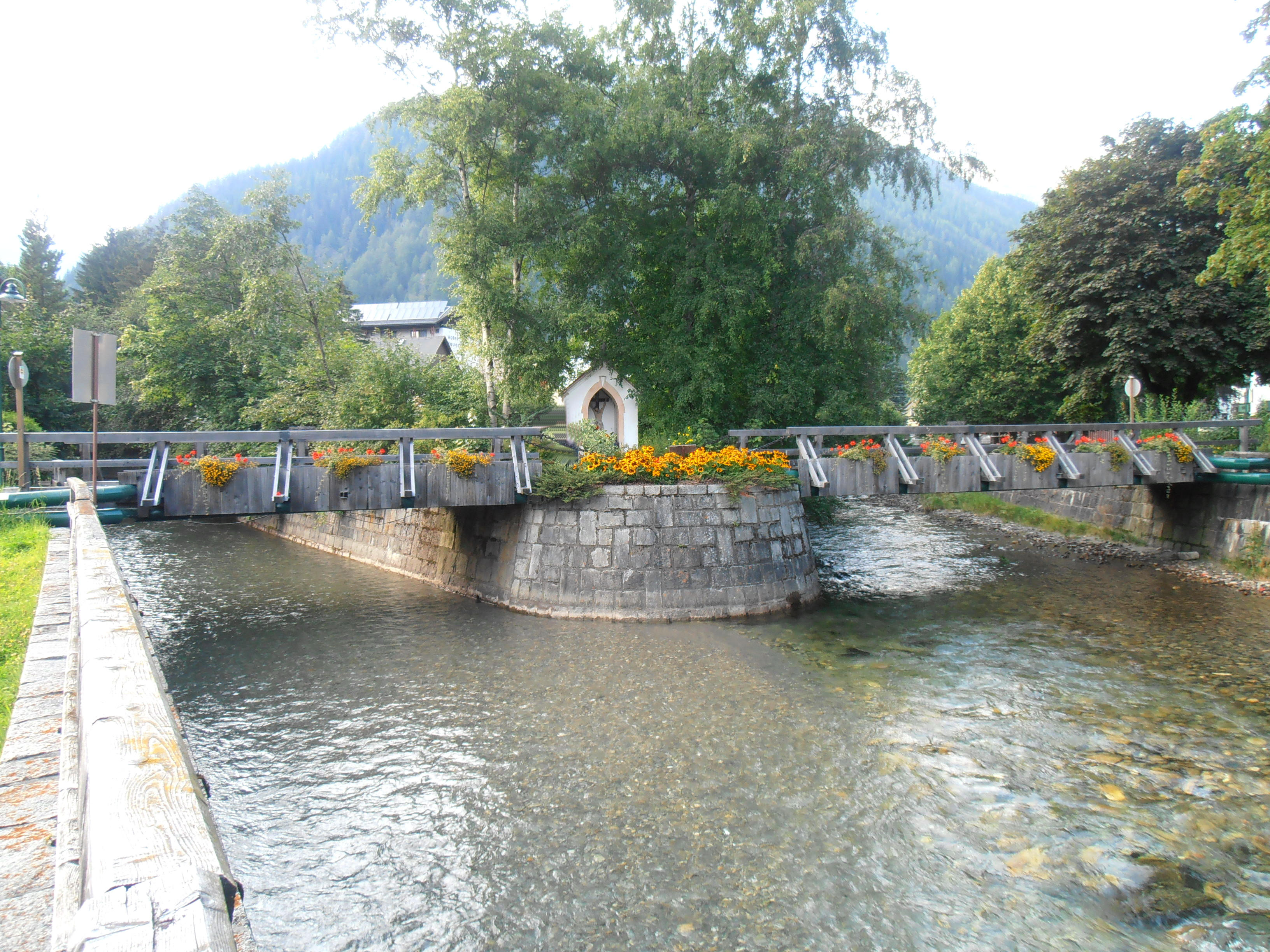 Mallnitz-Rivers